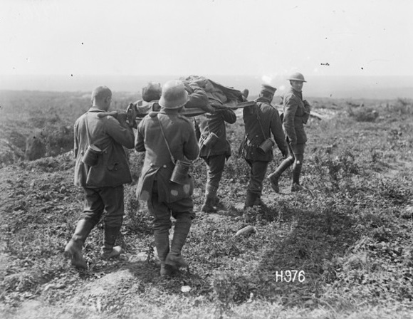 German prisoners carrying a wounded New Zealand soldier on a stretcher during World War I. Photograph taken Puisieux, France, 27 August 1918 by Henry Armytage Sanders.